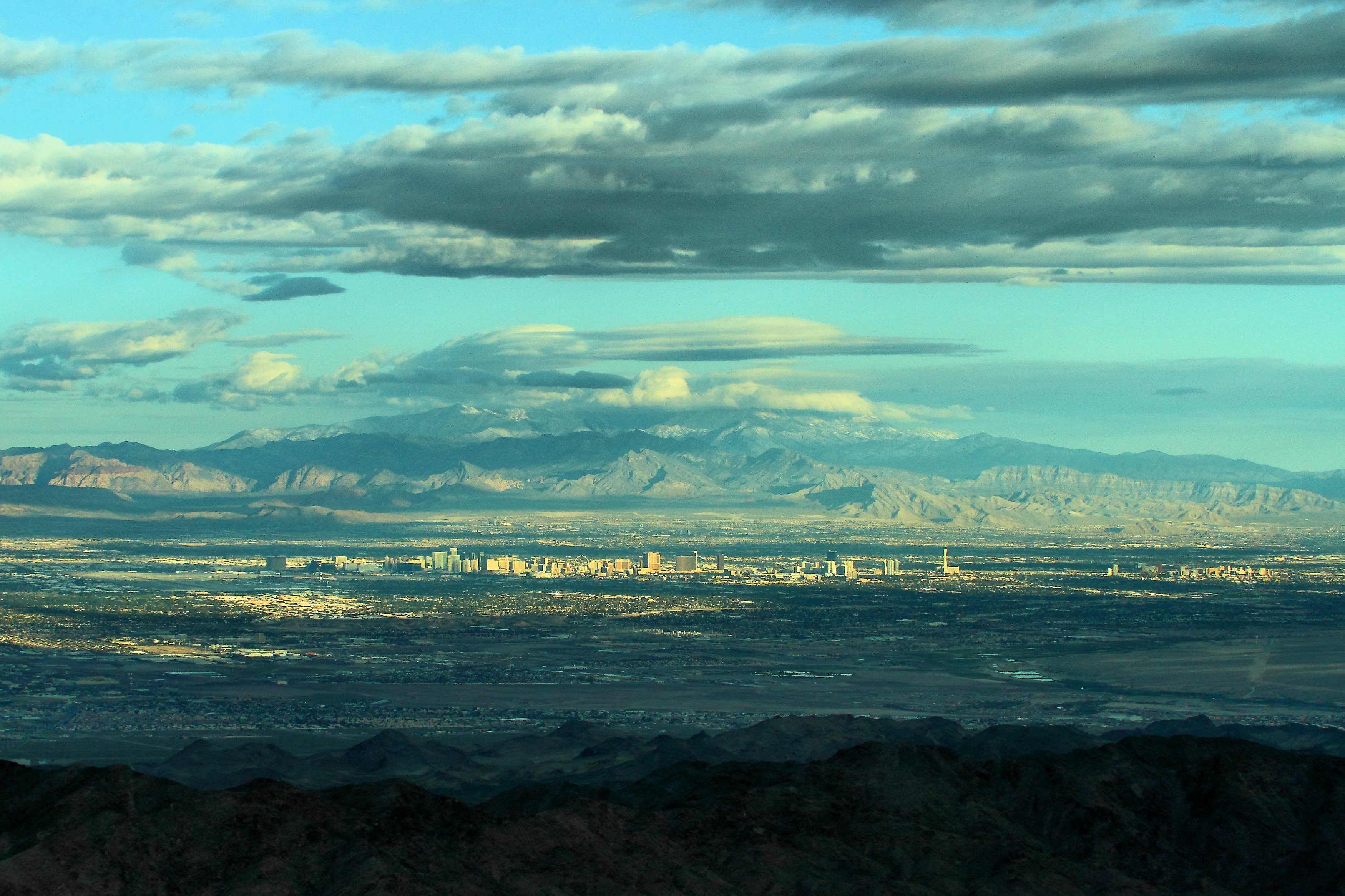 On our way to the Grand Canyon managed to get a reasonable view of Las Vegas out in the distance.